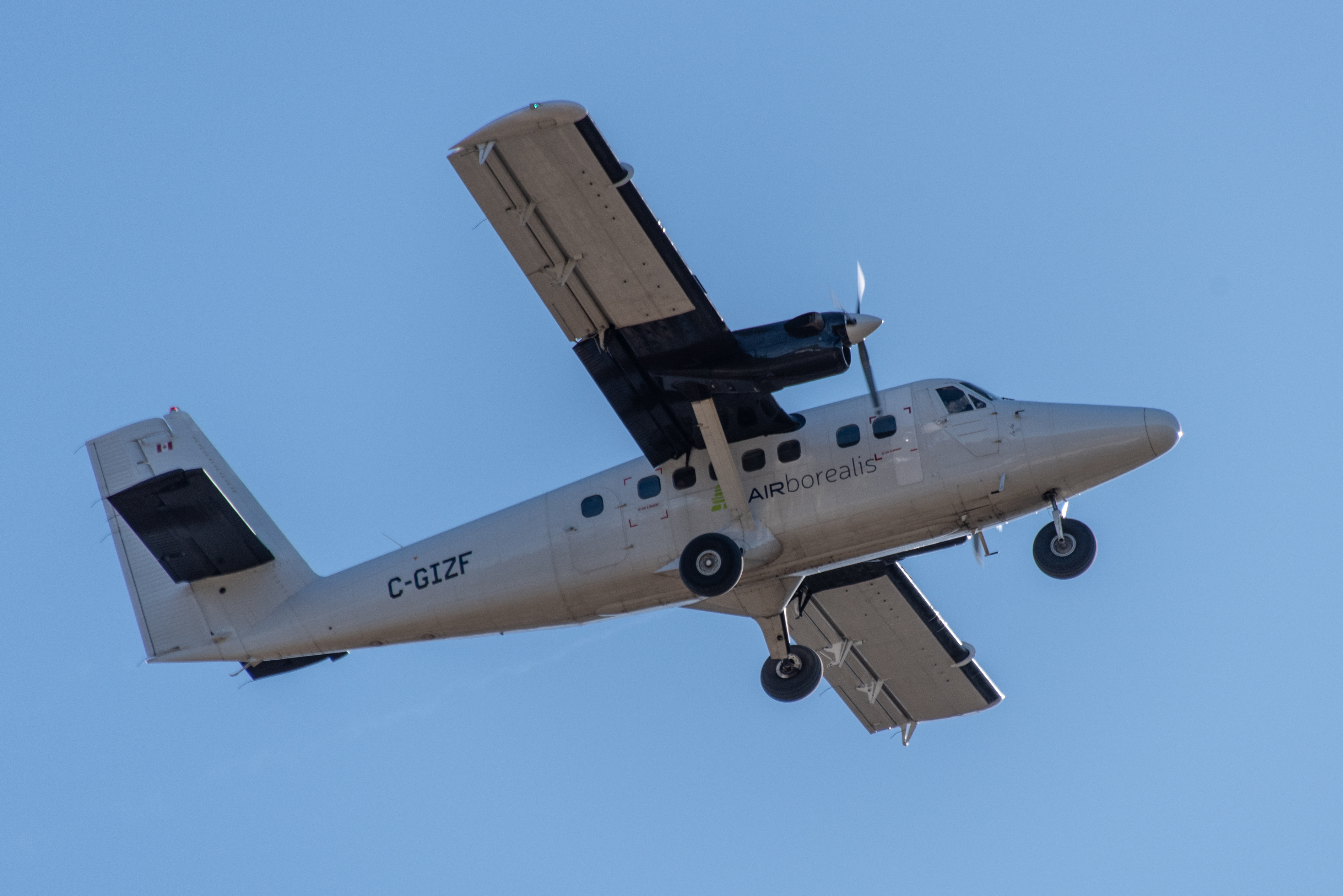 De Havilland Canada DHC-6-300 Twin Otter C-GIZF flown by Air Borealis (associated with PAL Provincial Airlines) taking off from Nain Airport, Labrador Canada on October 2, 2017.